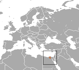 Egyptian Pygmy Shrew (Crocidura religiosa) range